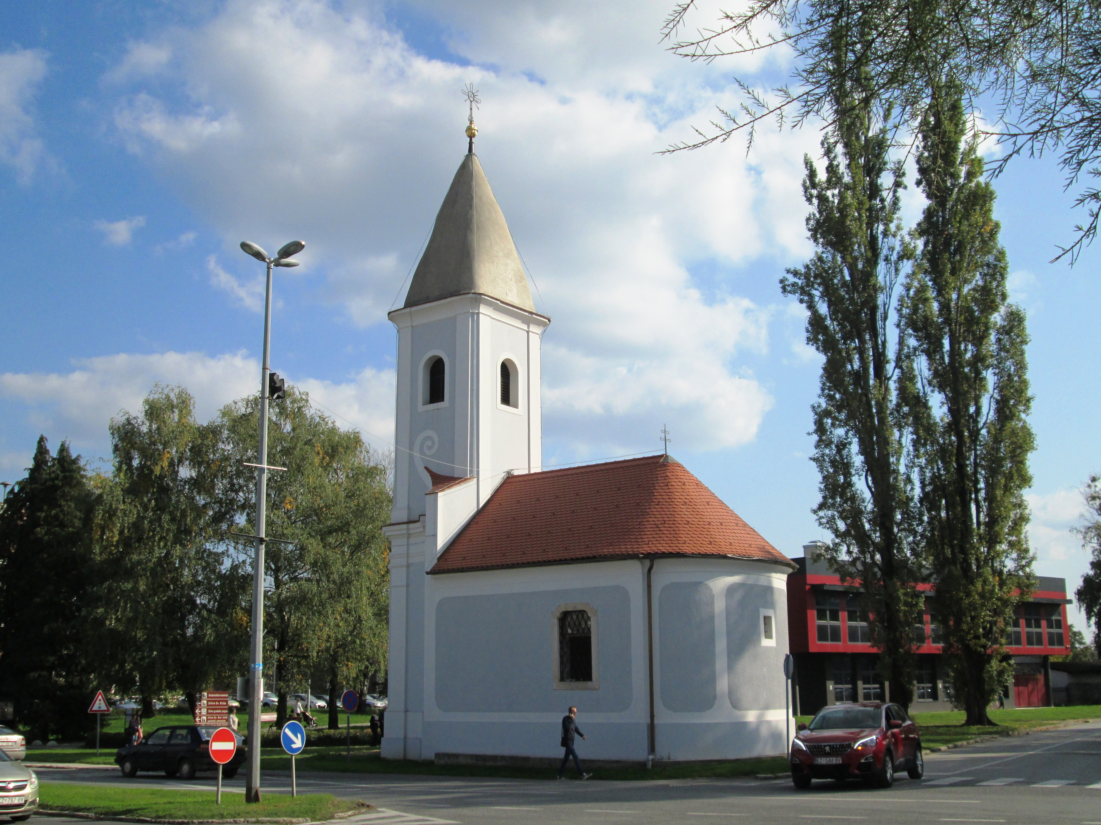 St. Florian Chapel in Krizevci, Croatia.